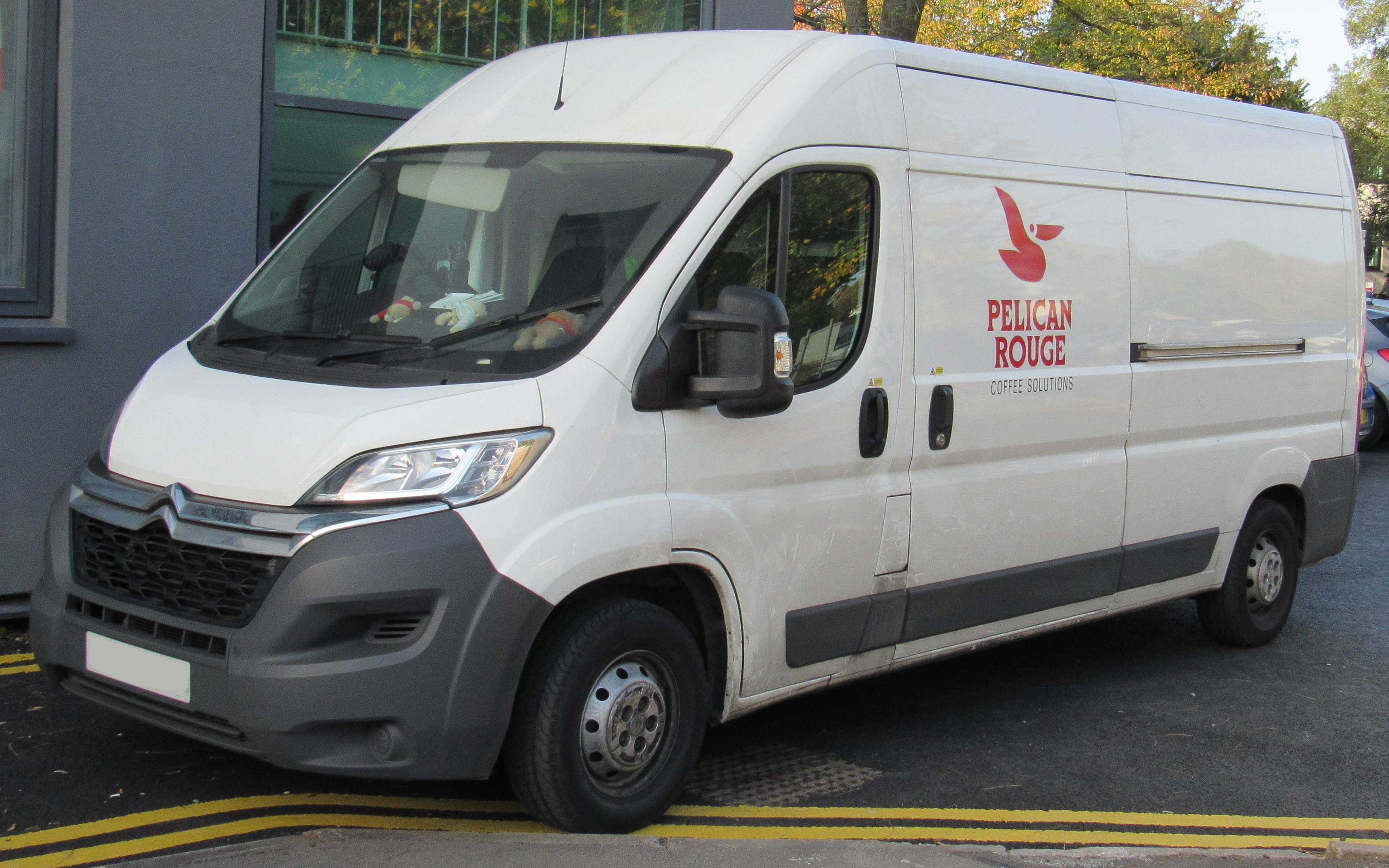 2016 Citroen Relay 35 L3H2 Enterprise facelift 2.2 Taken in Leamington Spa